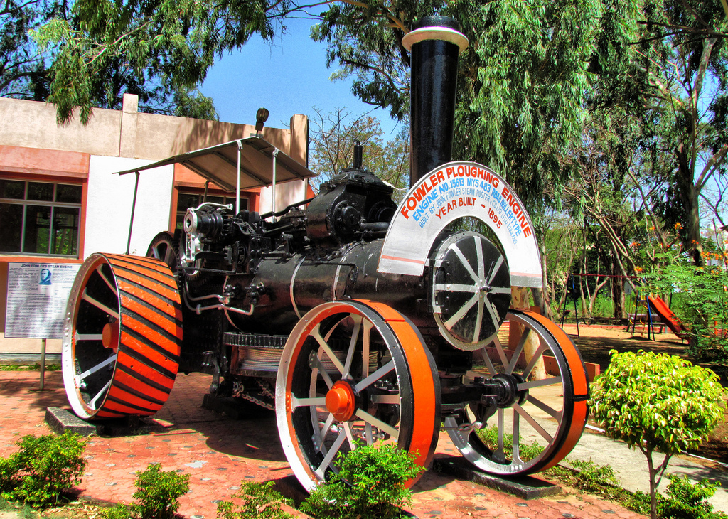 A Fowler Ploughing Machine at the Chennai Rail Museum which was built in the year 1895.